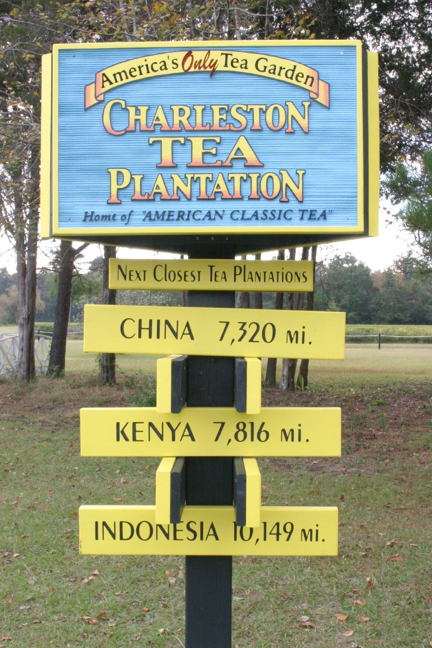 A sign at the Charleston Tea Plantation. This is North America's only tea plantation, but not the only tea plantation in the US. Hawaii is home to several tea plantations that are closer than the ones on the sign.